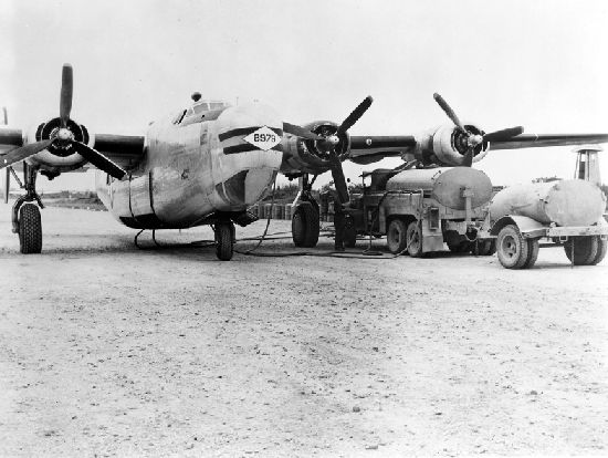 Consolidated C-109, dedicated fuel tanker version of the C-87 Liberator Express.